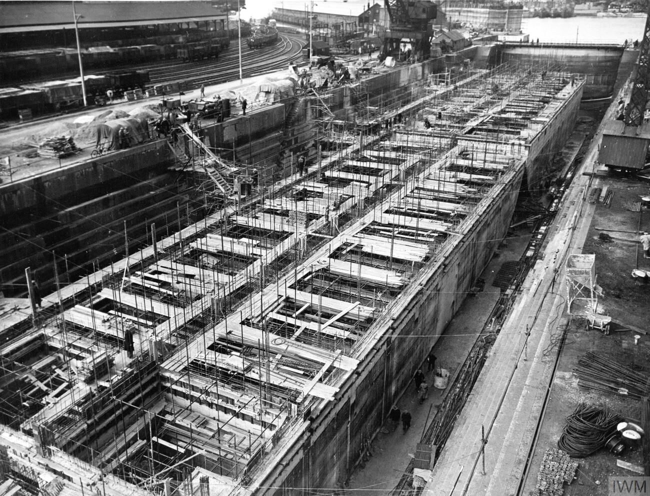 Construction of Mulberry Harbours, Southampton, April 1944 Concrete caissons (Phoenixes), to be used as breakwaters, under construction in dry dock.